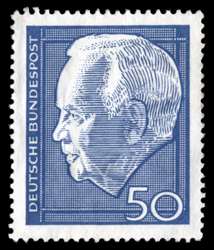 President of Germany, Heinrich Lübke (1894–1972)